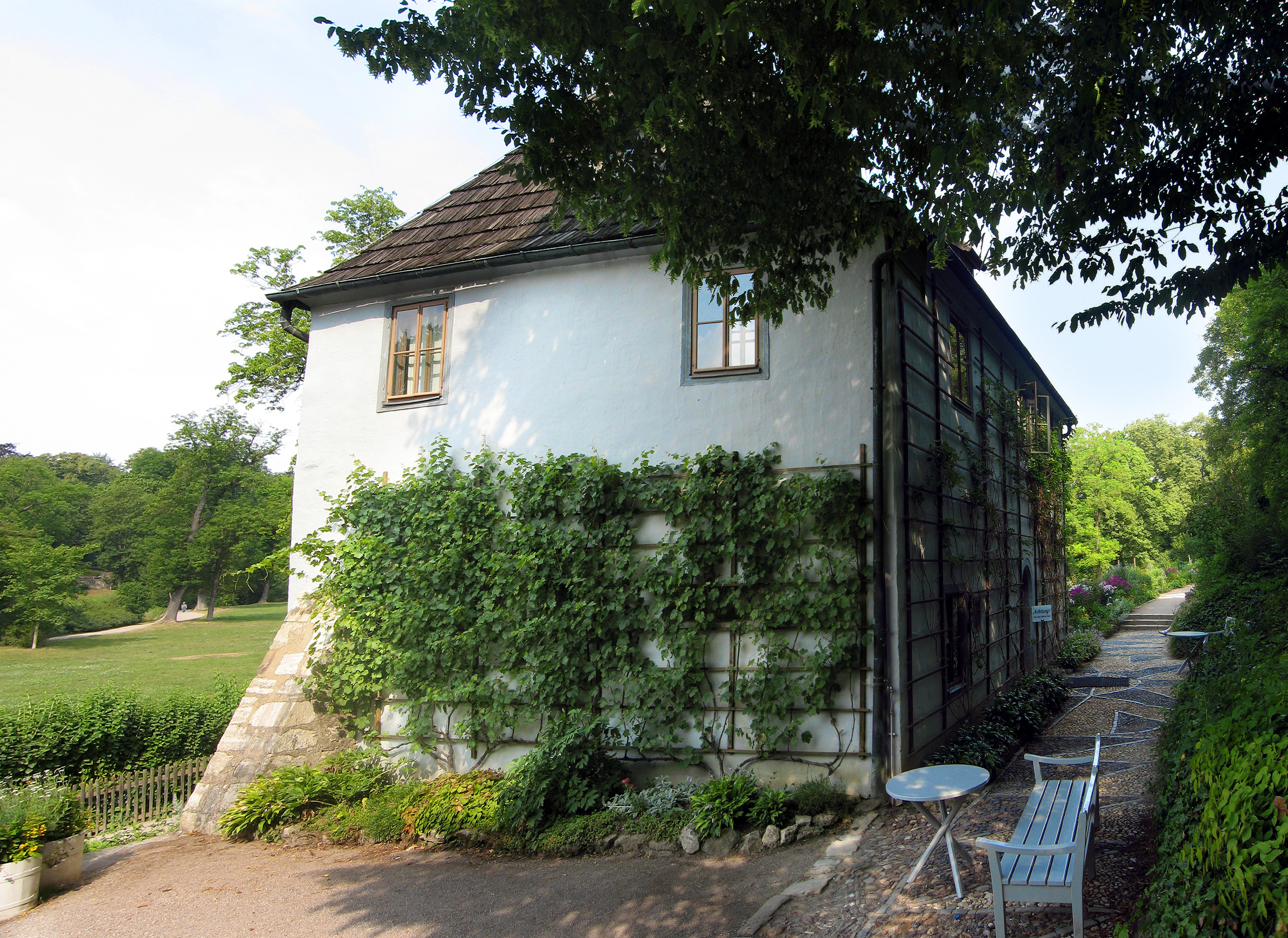 The Gartenhaus of Goethe in Weimar. Backside with entrance